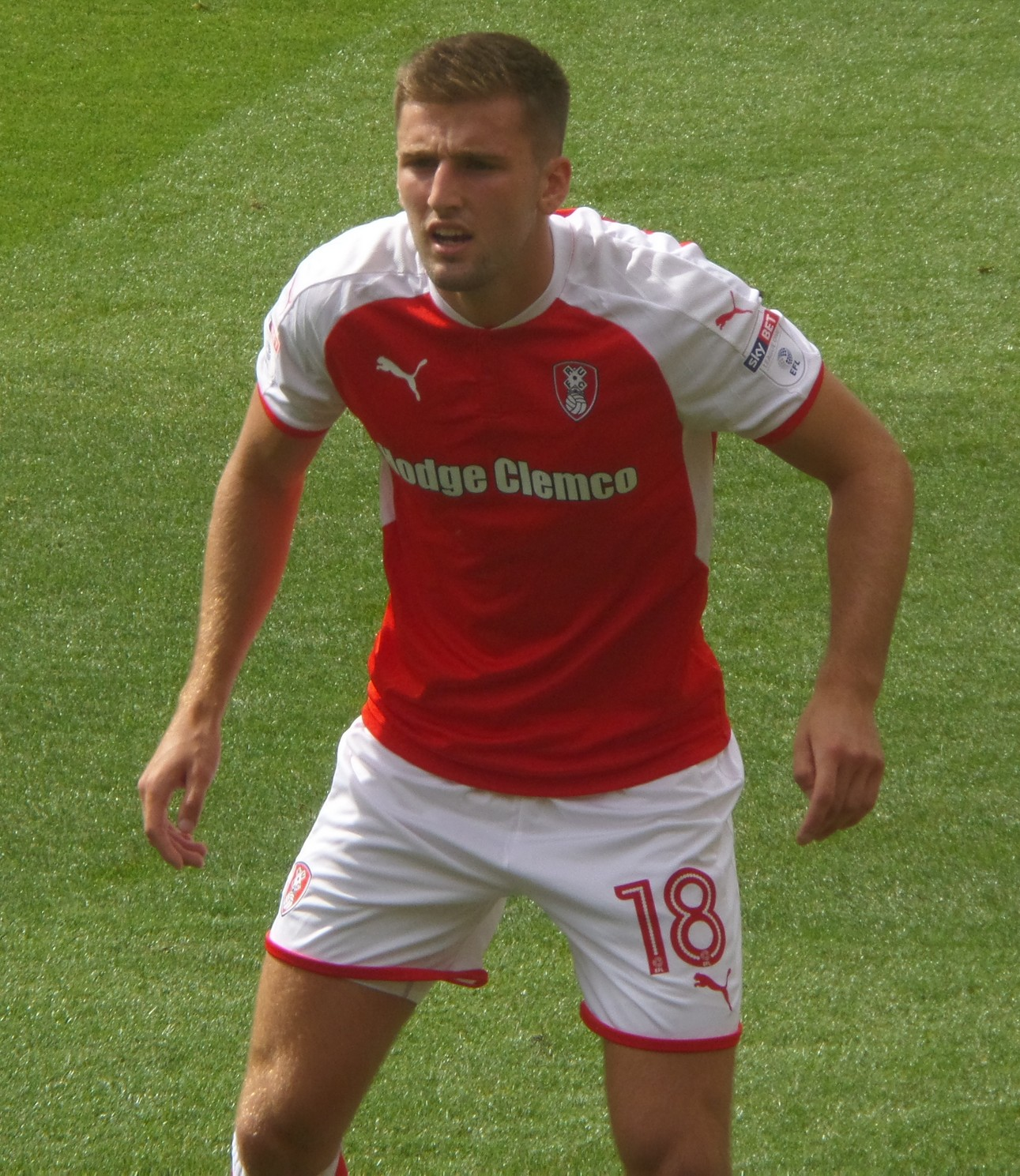 Pre season Friendly 29th July 2017 at New York Stadium